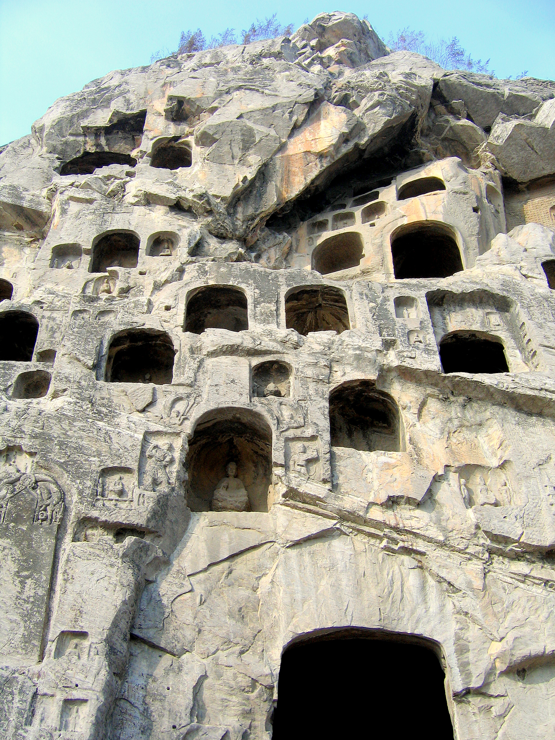 Caves in cliff at Longmen, Luoyang, Henan, China